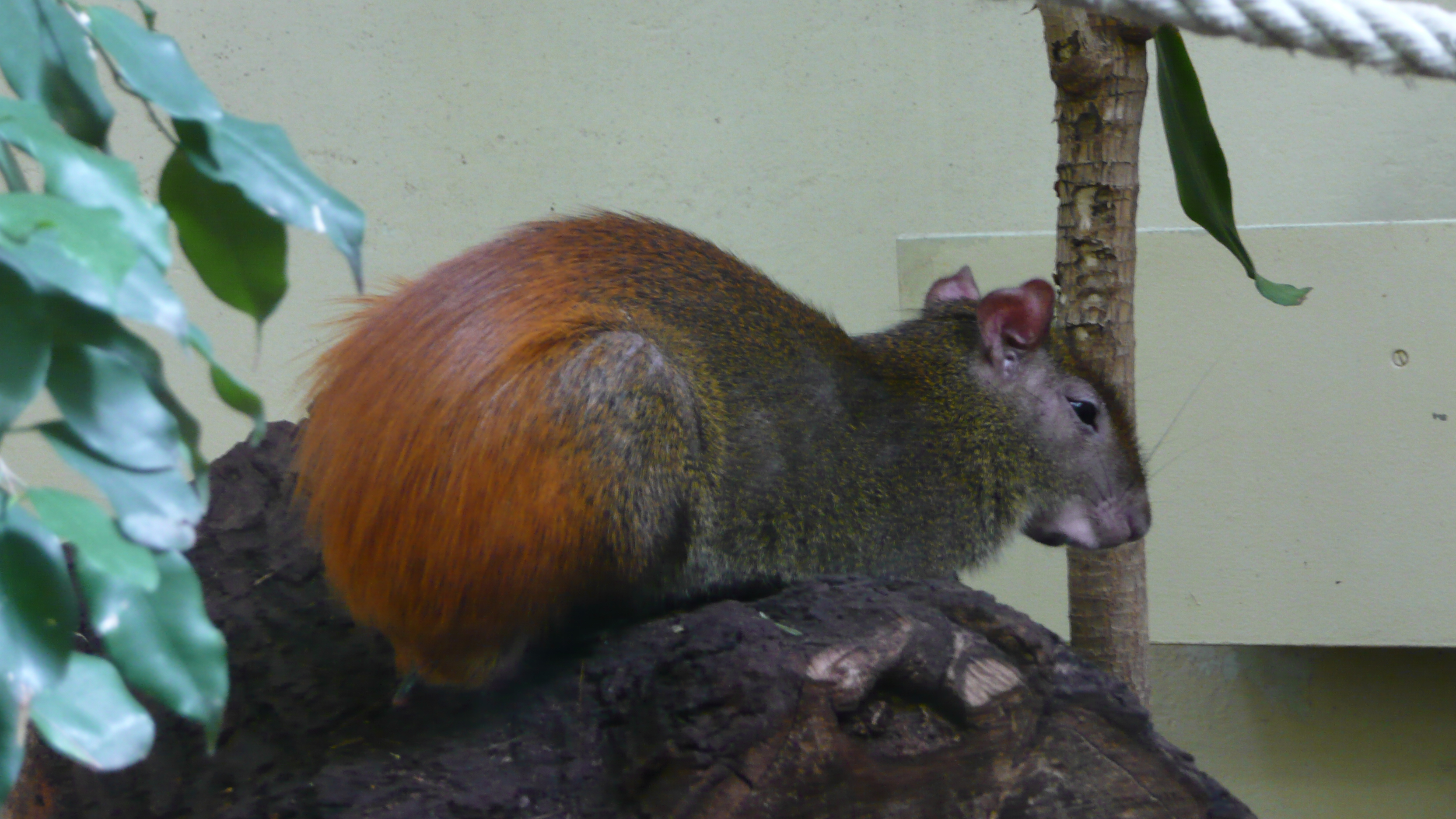 "Goldaguti" in Wilhelma Zoo (Stuttgart)